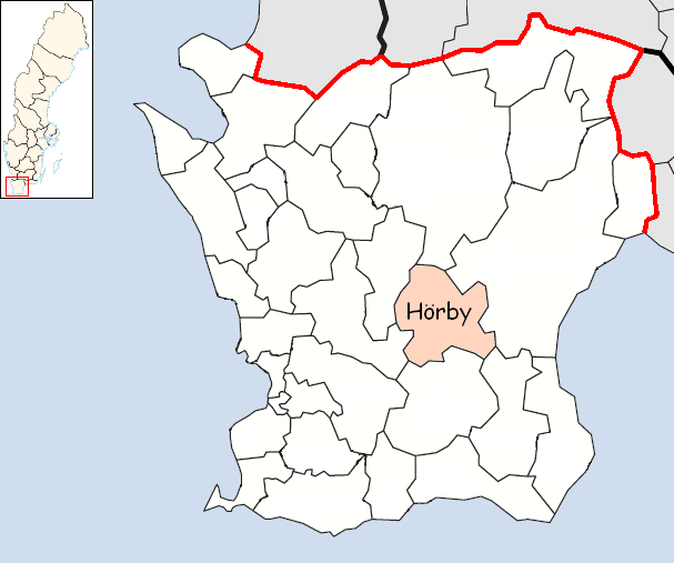 Hörby Municipality in Scania, Sweden Designed by me. Mere outlines are a PD source from